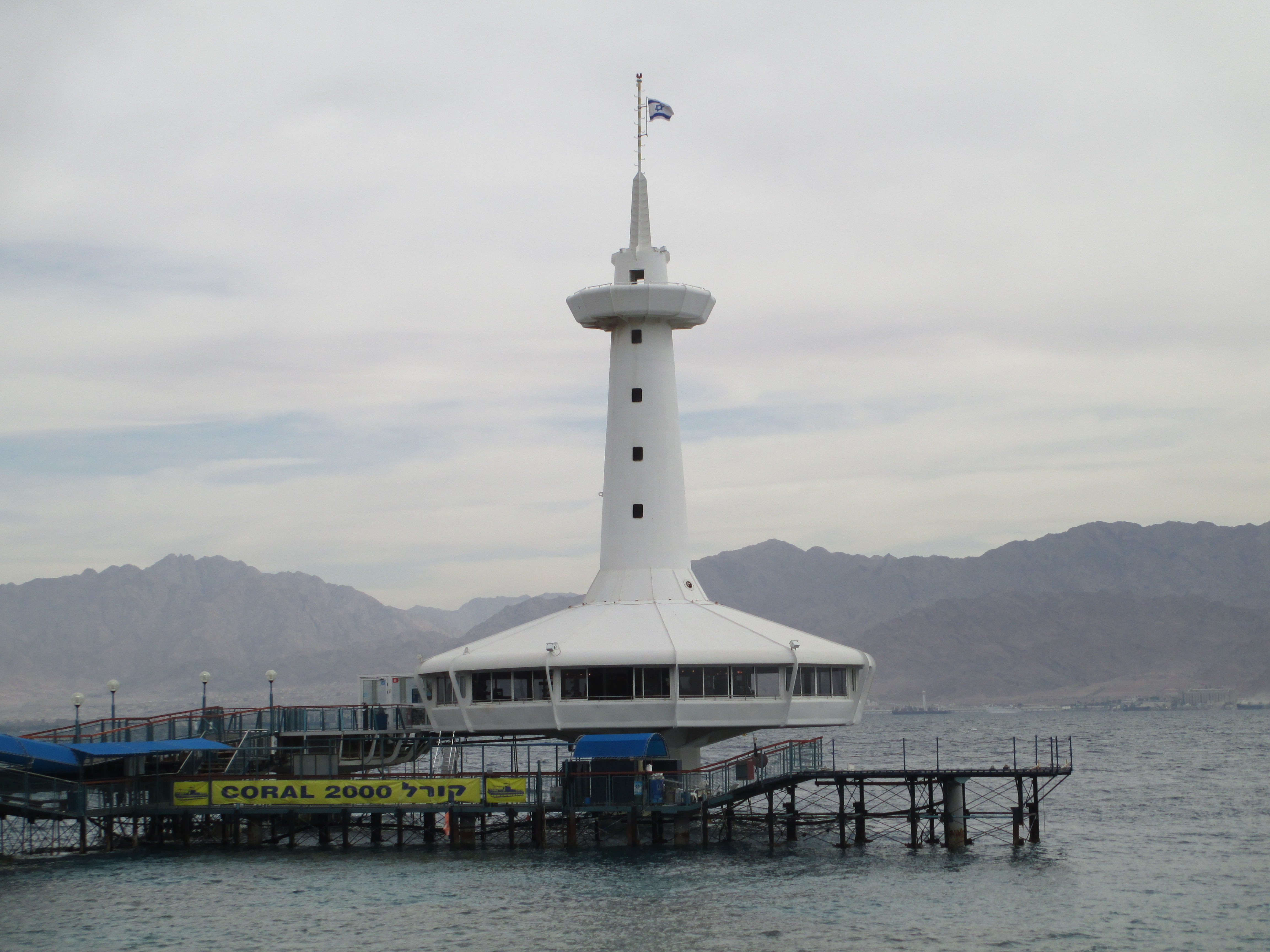 Underwater observatory in Eilat